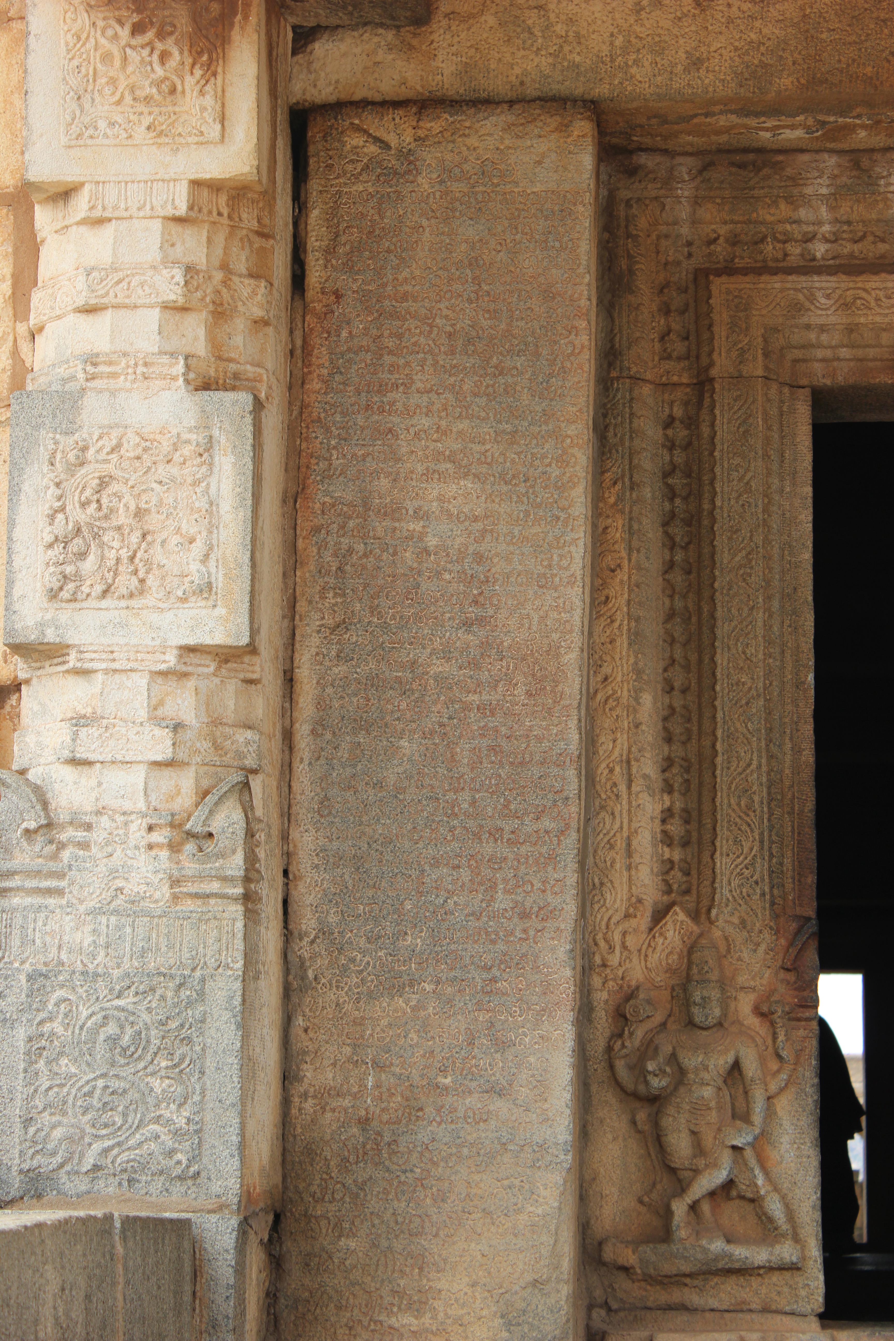 This photograph of a Kannada inscription (1513 AD) of Vijayanagara King Krishnadeva Raya was taken by me at the Vitthala temple complex in Hampi, a UNESCO world heritage site in the Bellary district, Karnataka state, India. The inscription explicitly mentions the names the king's three queens and father Narasa Nayaka and mother Nagala Devi.